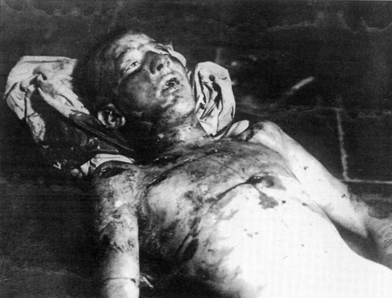 Anteo Zamboni after his lynched.